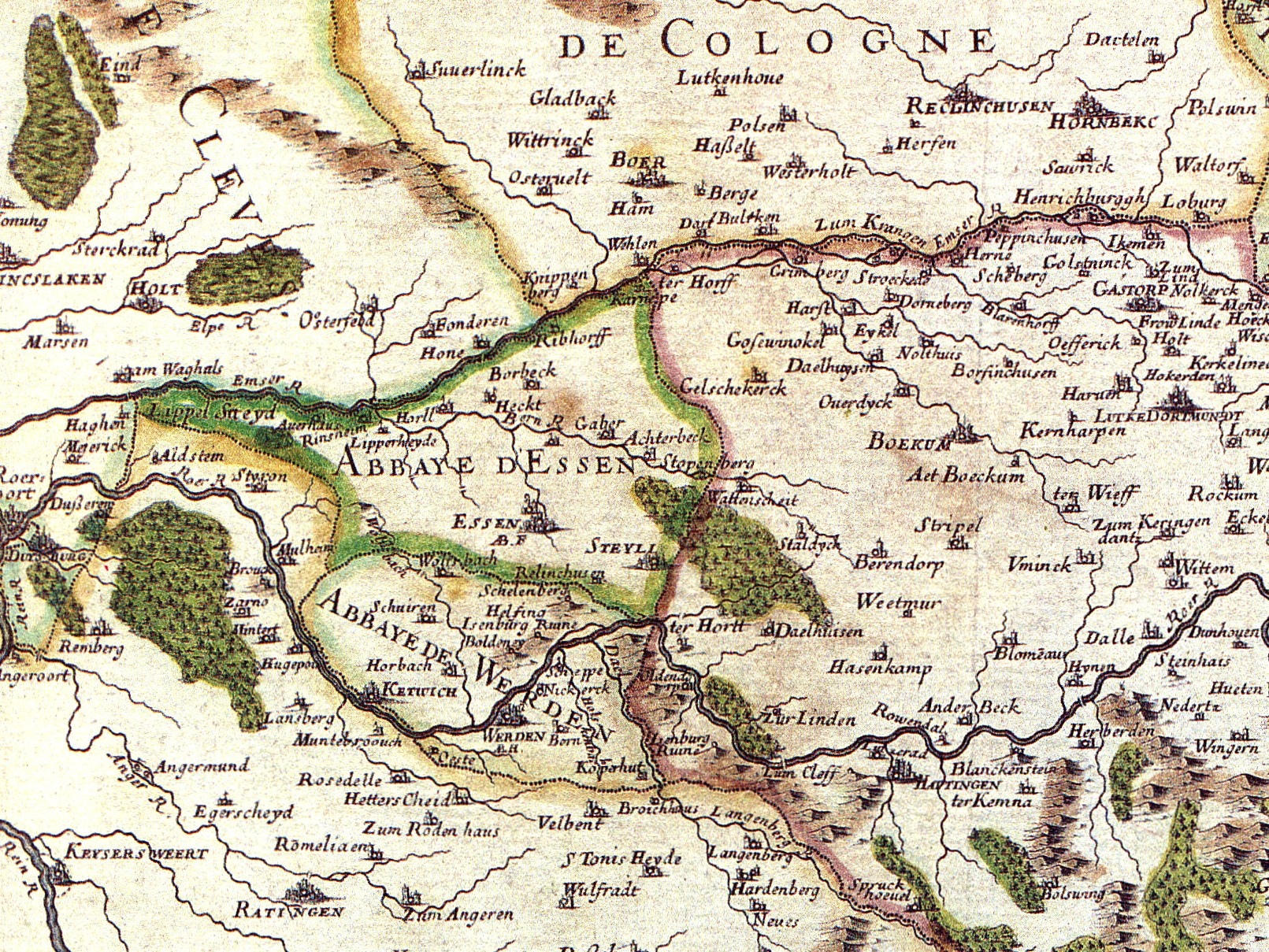 Detail of a map from 1681 showing the territory of the Imperial abbeys of Essen and Werden, by Nicolas Sanson, Public Domain Kartenausschnitt